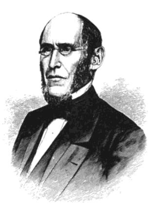 Timothy Jenkins. New York Congressman